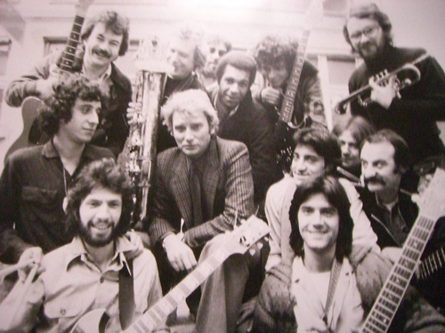 Musicians of the 1978 tour of Johnny Hallyday